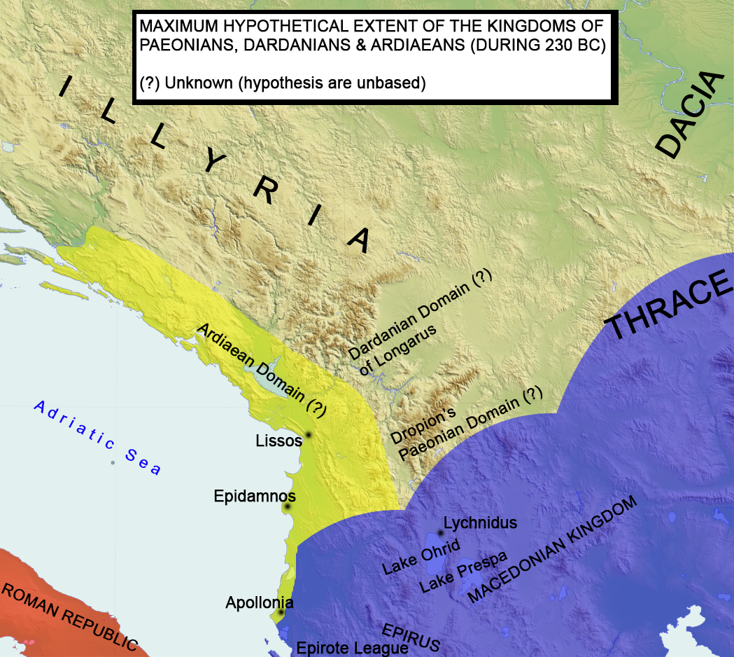 Paeonian, Ardiaean (Ilyrian), Dardanian kingdoms extent during 230 BC. Maximum hypothetical extent. Dropion was the last king of Paeonia Longarus was the king in Dardania Agron and Teuta ruled the Ardiaean kingdom in Illyria